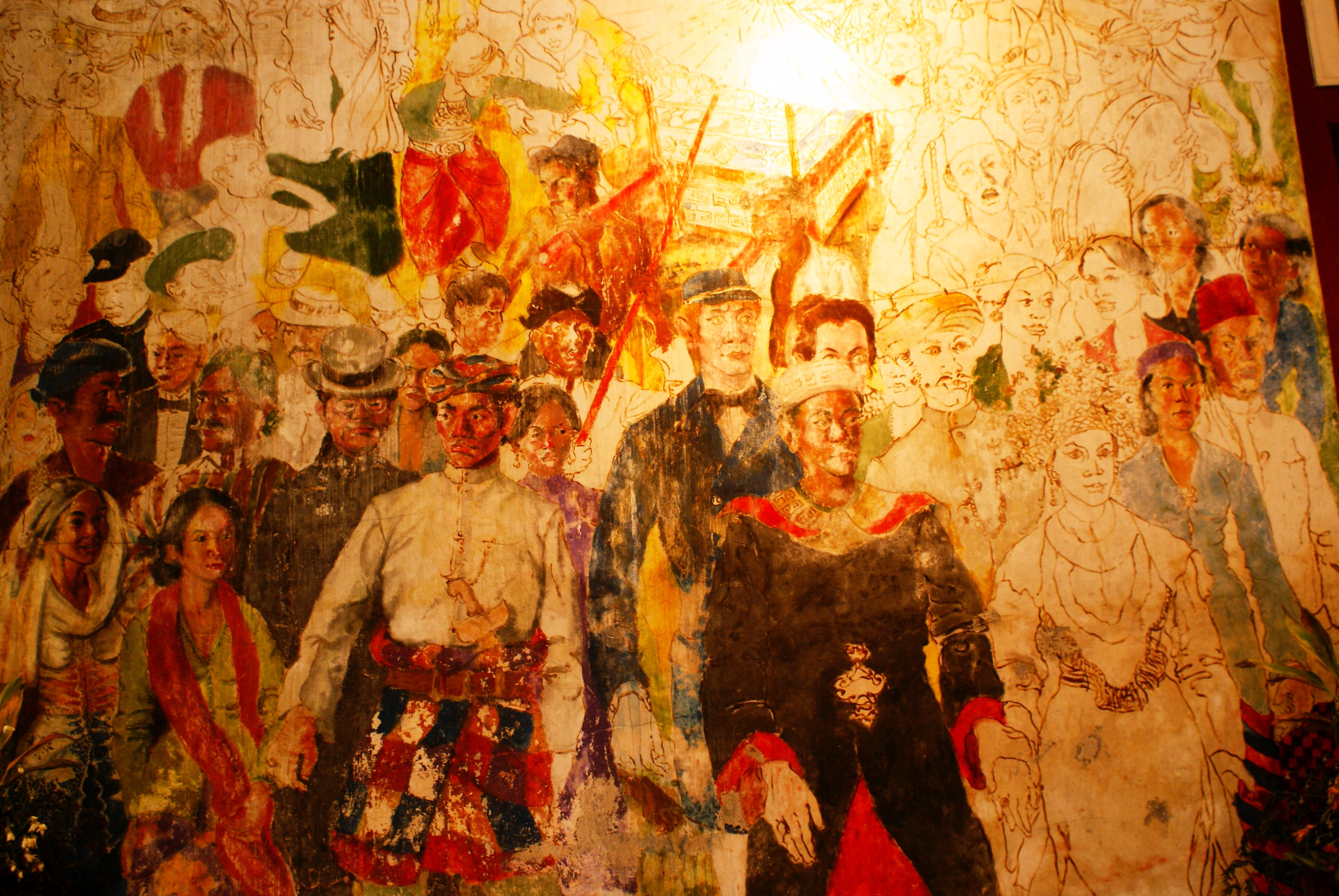 Unfinished (uncolor) Mural by Harijadi Sumodidjojo at Jakarta Historical Museum.